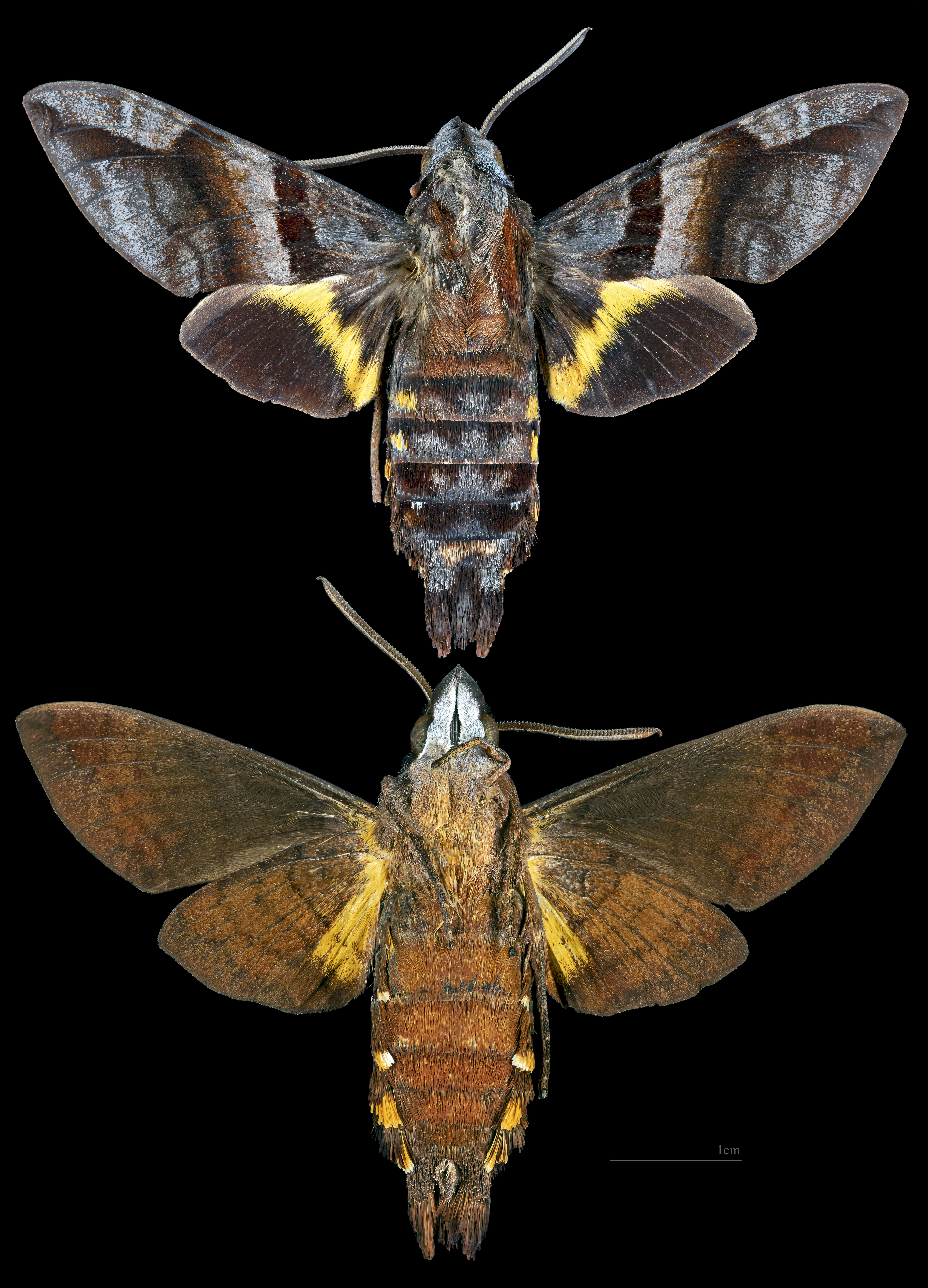 Macroglossum augarra - Two views of same specimen Collection of the Mathematician Laurent Schwartz